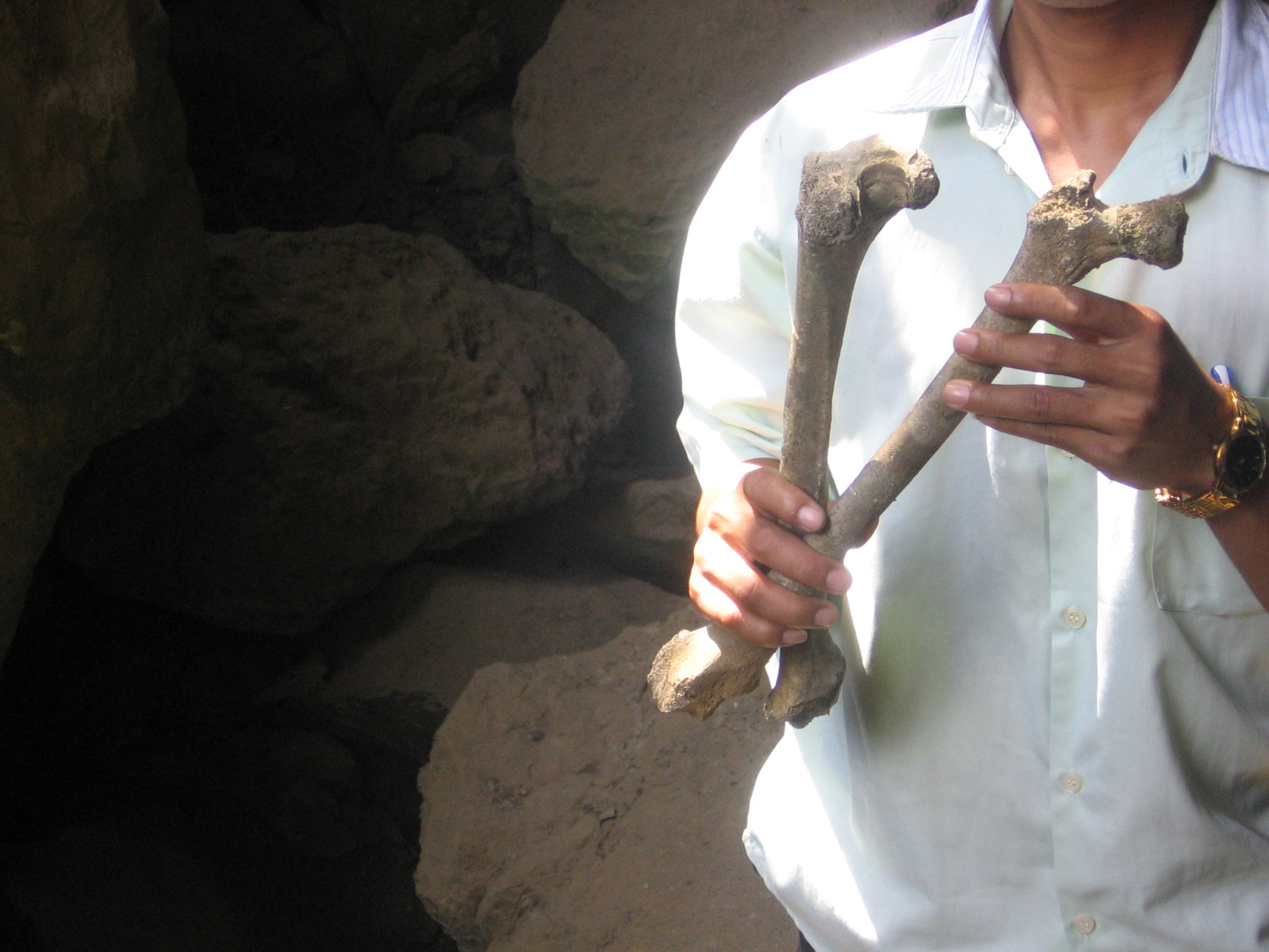 Rests of victims of the Khmer Rouge in the Kampong Trach Cave, Kiry Seila Hills, Rung Tik (Water Cave) or Rung Khmao (Dead Cave), 45 kilometers at the east of Kampot City, south of Cambodia. Although the goverment gathered most of the rest in the late 1990's, still some of them in the cave.